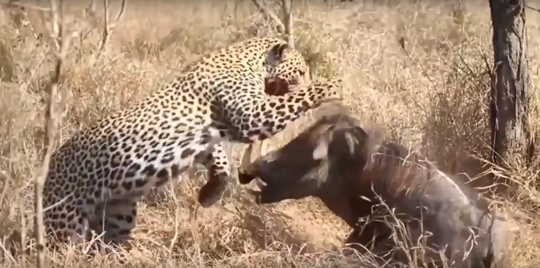 Leopard killing warthog